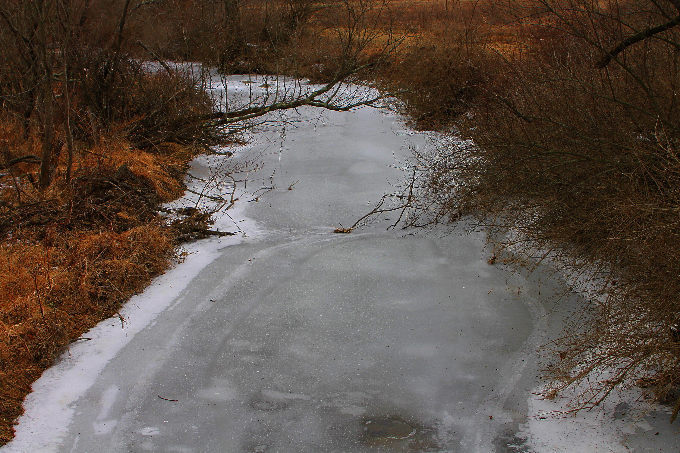 Spruce Run looking downstream from Pennsylvania Rout 4018 in late January.